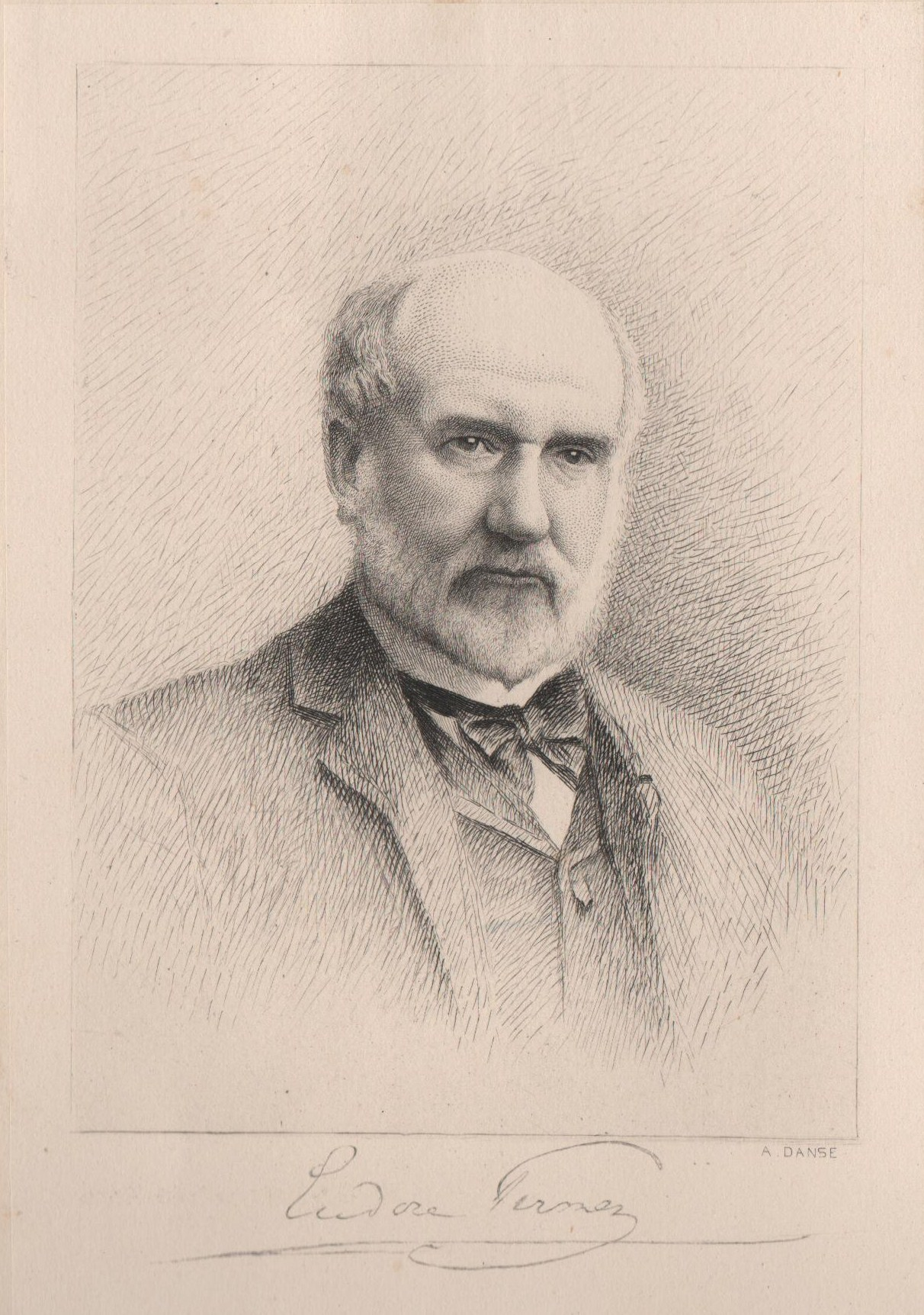 Portrait of Eudore Pirmez, Belgian lawyer and politician